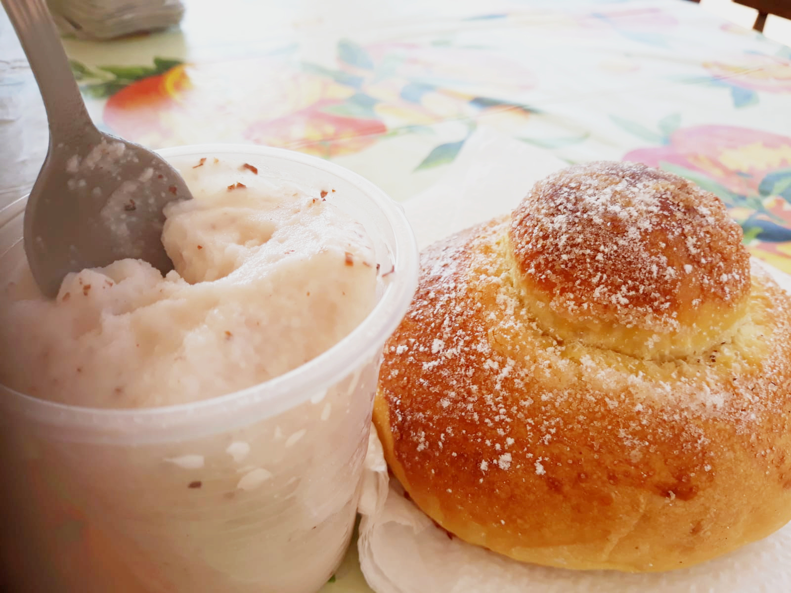 Almonds granita and brioche of Syracuse